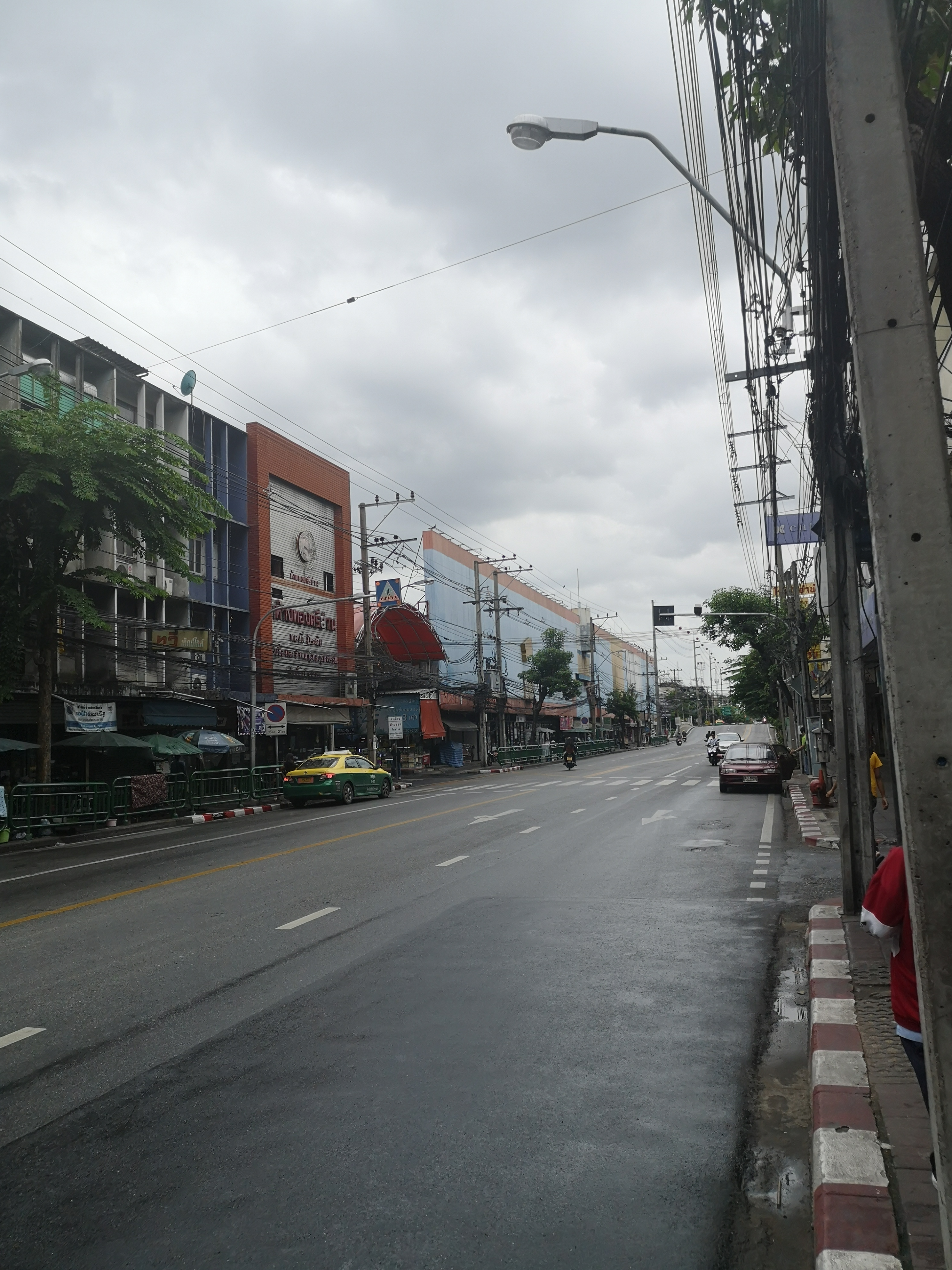 Thanon Sam Sen